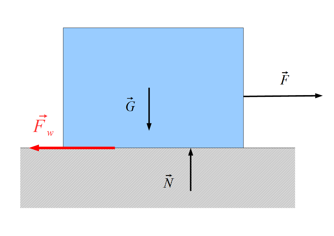 Static friction